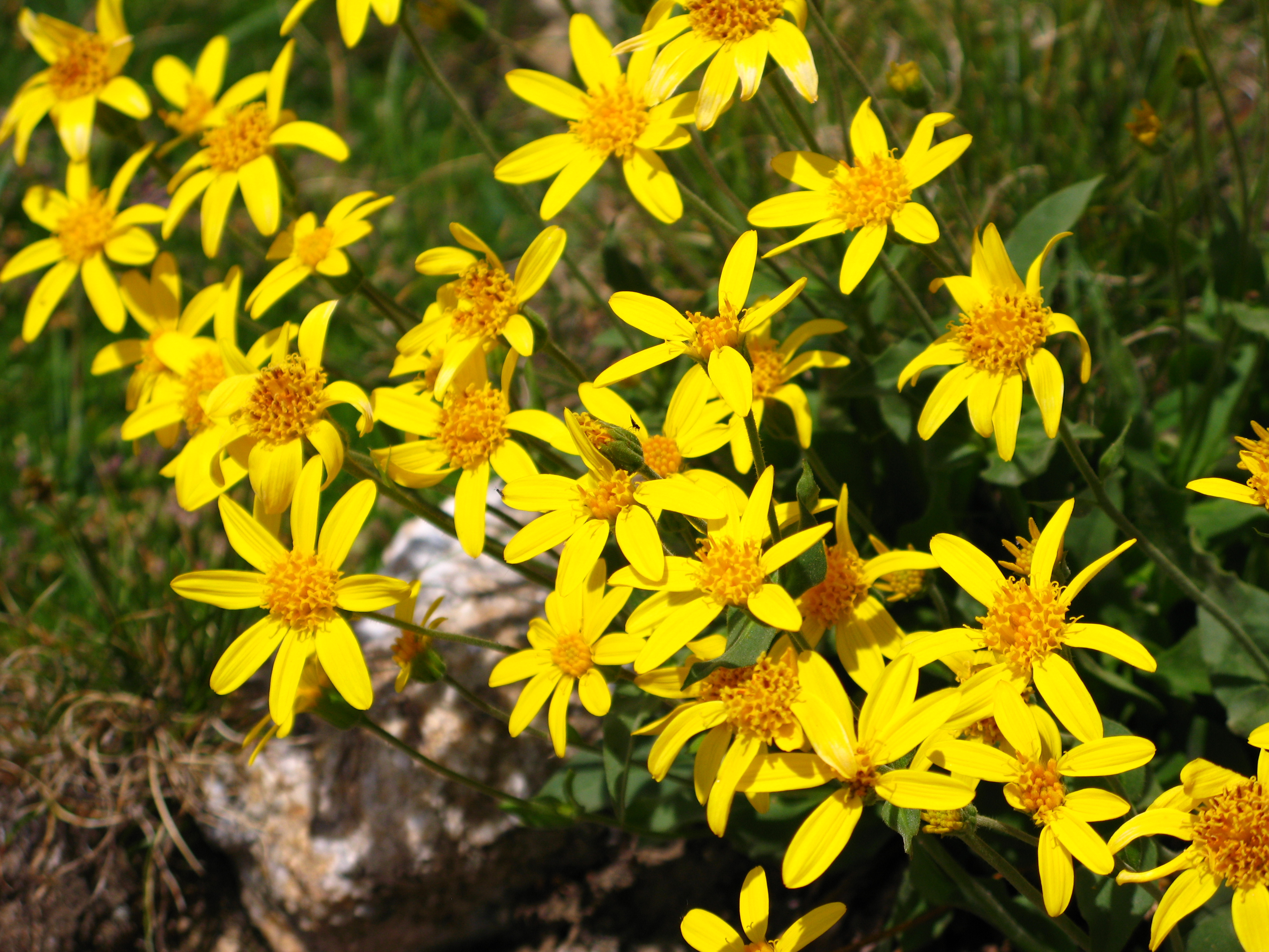 Heading Down from Paintbrush Divide towards Lake Solitude - Grand Teton National Park - Jackson, WY - Senecio werneriifolia or 'Packera werneriifolia